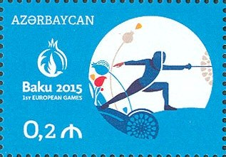 Baku 2015. First European Games.(2nd edition) N 1208 - 20 qapik – Fencing